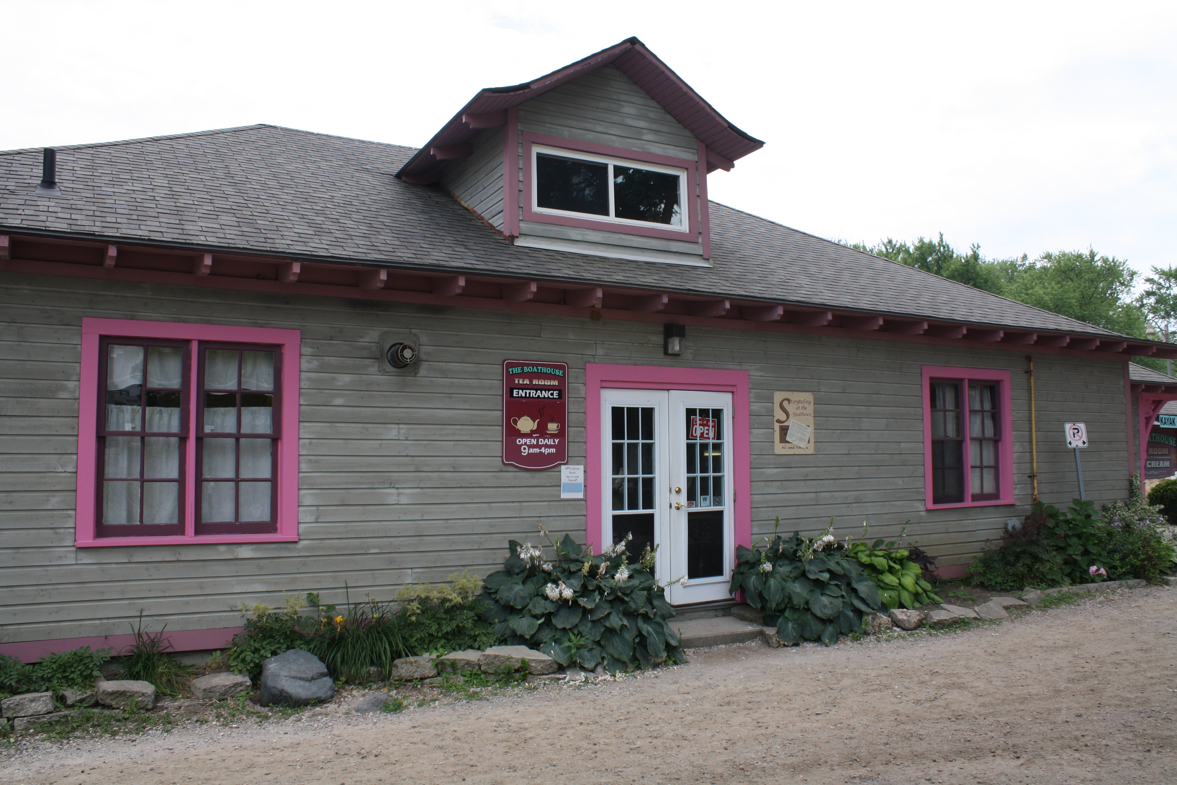 The Boathouse is a tea room and ice cream shop in downtown Guelph, located directly beside the Speed River.